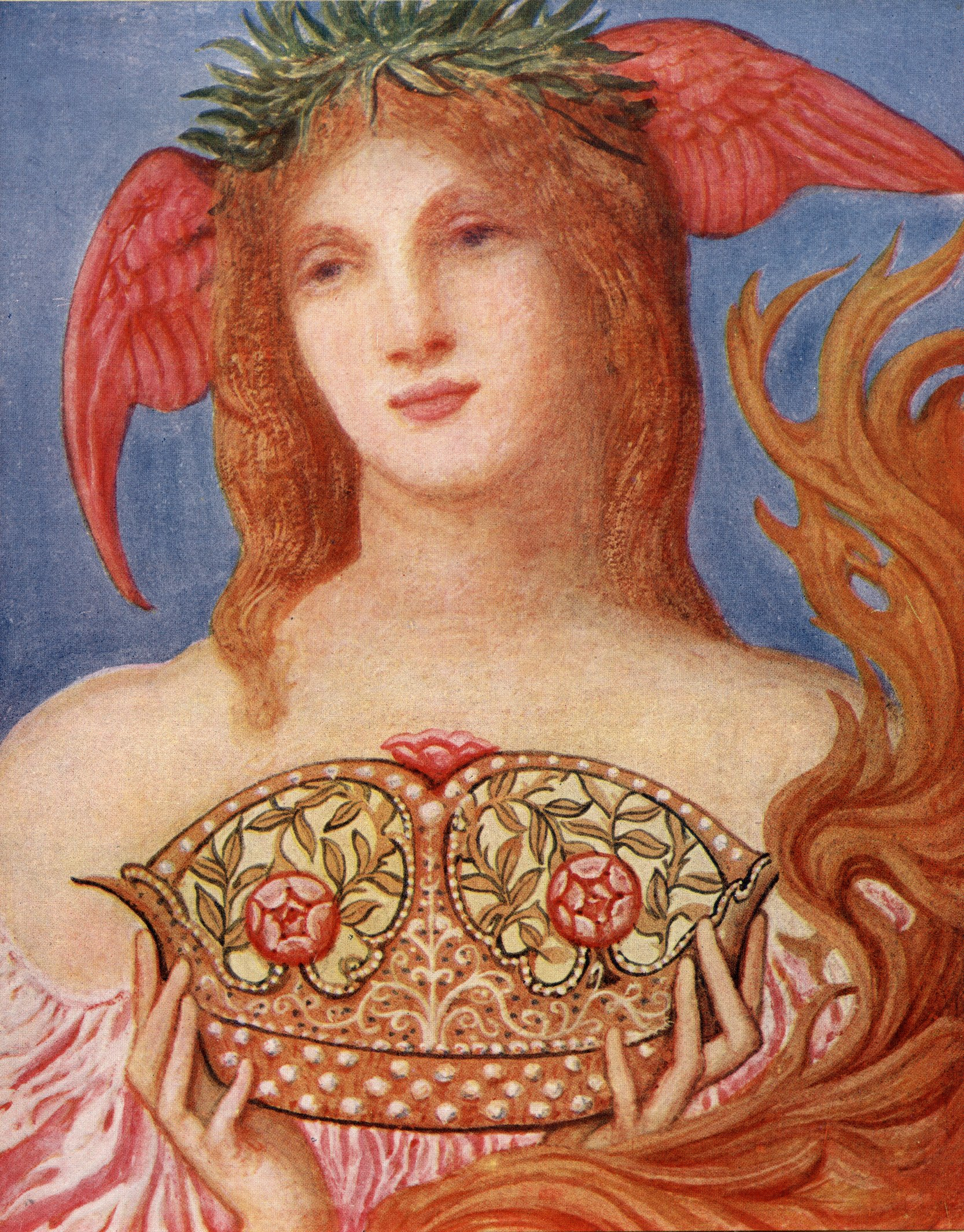 The Crown of Peace, by William Blake Richmond